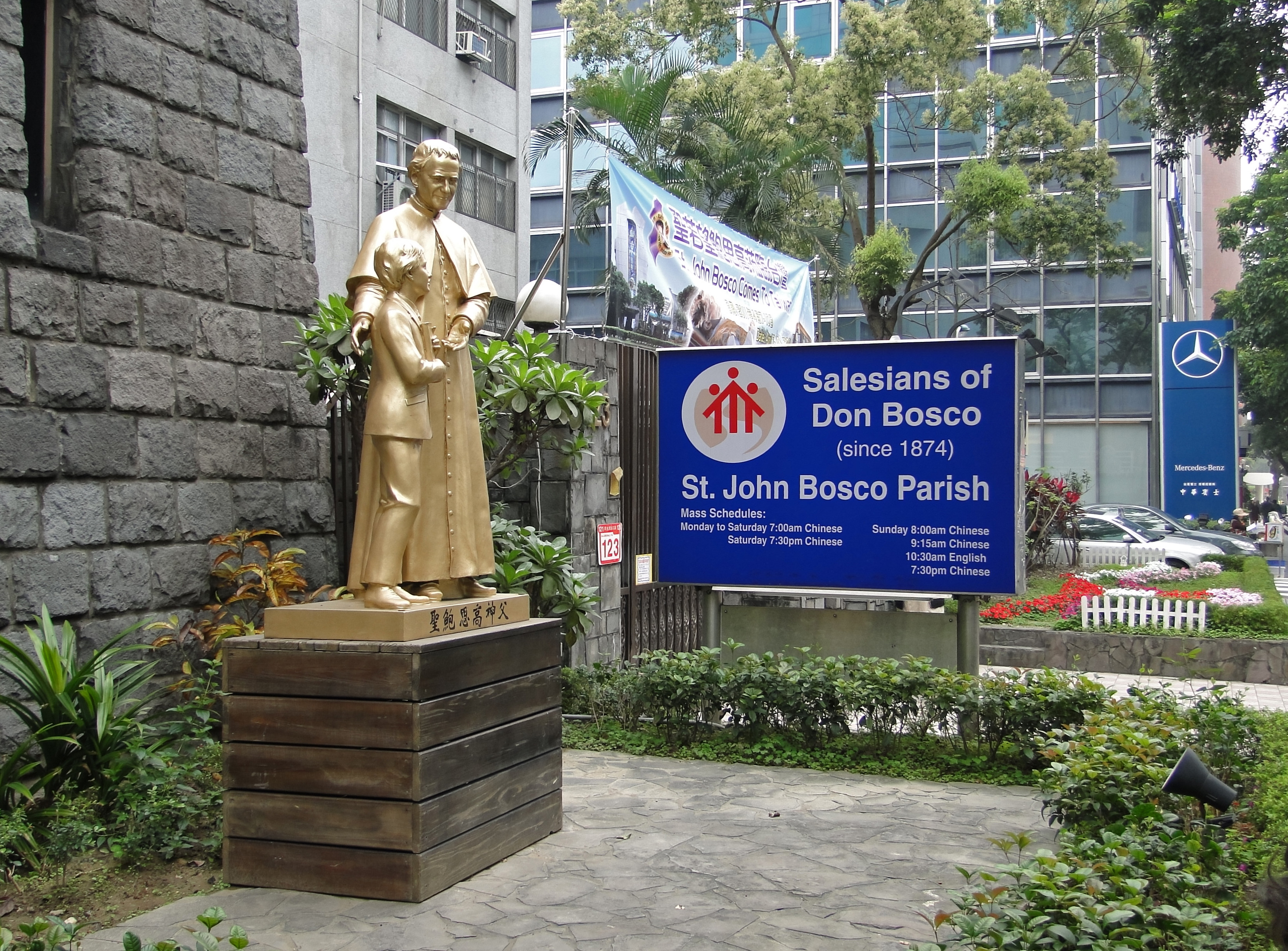 Statue of Don Bosco at St. John Bosco Parish Church, Taipei, Taiwan